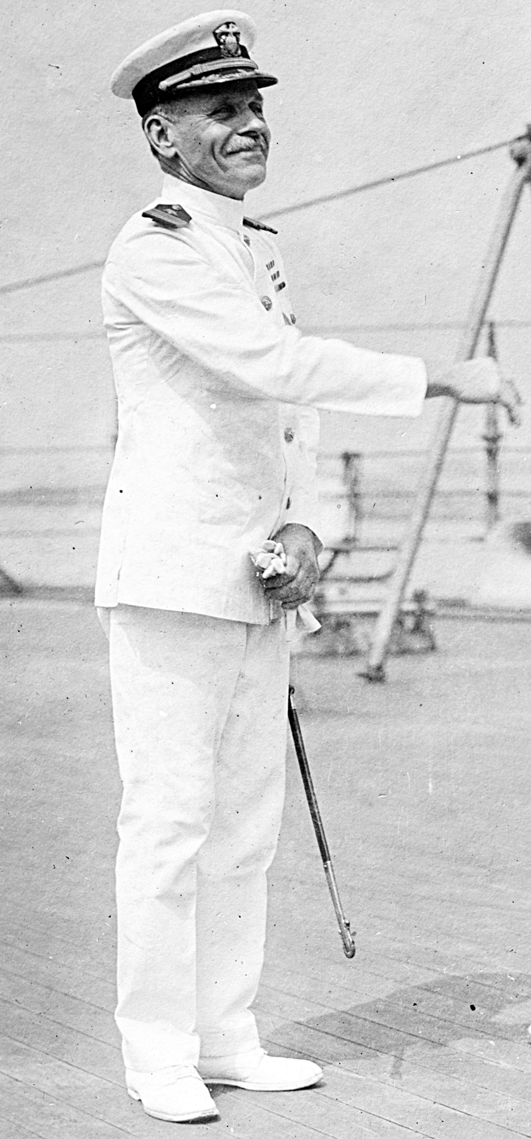 Martin Edward Trench, United States Navy officer and Governor of the US Virgin Islands